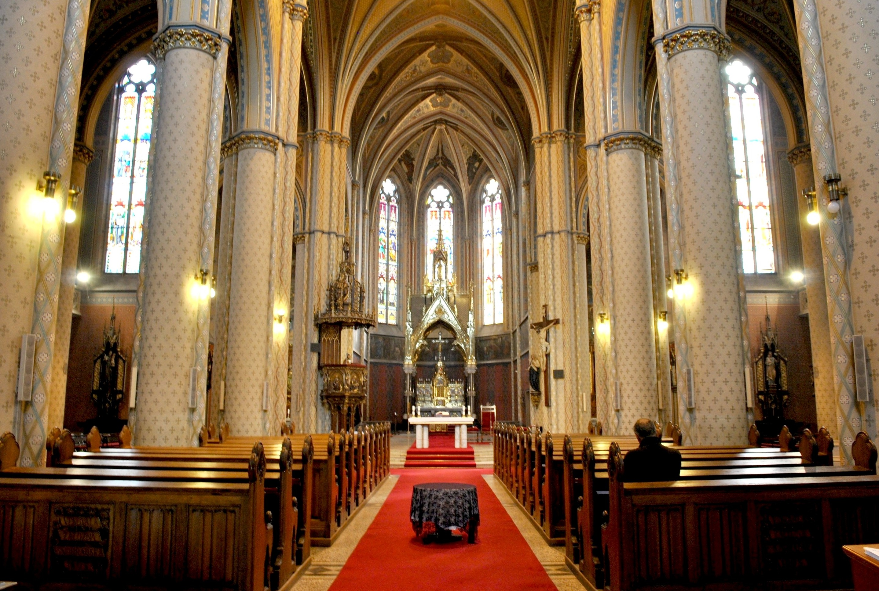 The main nave of the basilica.